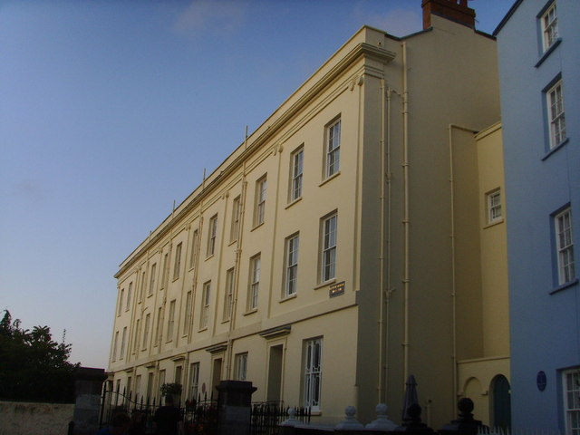 Lexden Terrace, Tenby Built in 1843 , No. 2 Lexden Terrace was the birthplace of the Welsh writer and artist Nina Hamnett~(14 February 1890 – 16 December 1956).